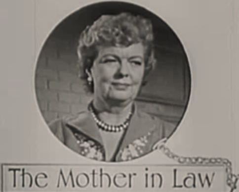 Margalo Gillmore in Behave Yourself! - cropped screenshot